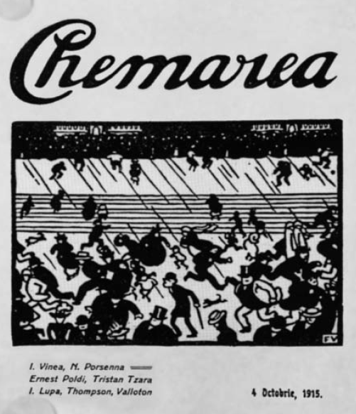 Cover of the Romanian Symbolist and avant-garde magazine Chemarea ("The Calling"), printed in Iaşi by by N. D. Cocea and Ion Vinea. The design elements are uncredited; the central image is a reproduction of a drawing by Vallotton. The latter is identified by the list of contributors to the lower right of the image. Full details on Vallotton reprints on the Chemarea covers and their importance for the magazine in: Paul Cernat, Avangarda românească şi complexul periferiei: primul val, Cartea Românească, Bucharest, 2007, p.99-100. ISBN 978-973-23-1911-6